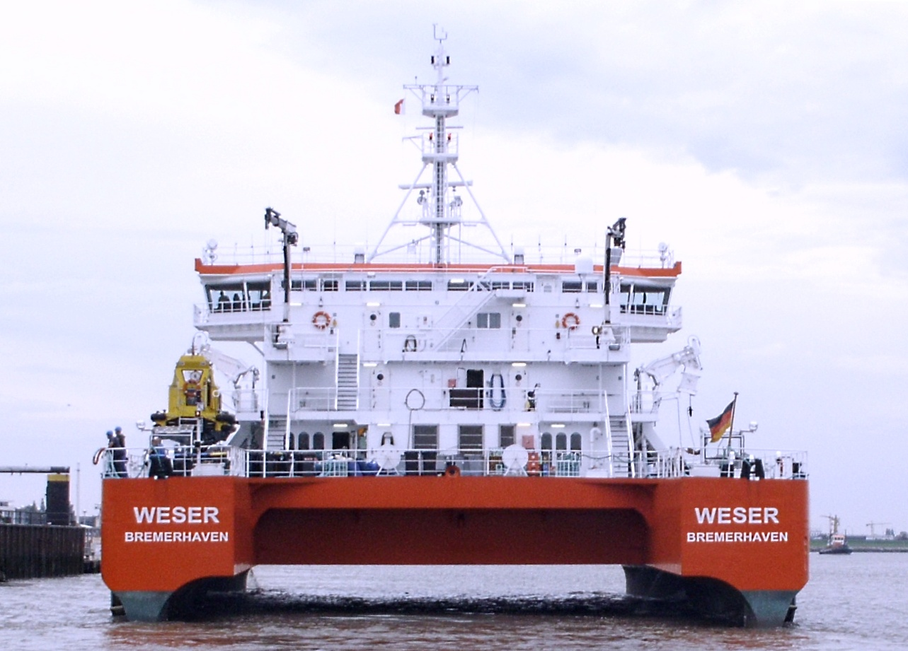 Catamaran Pilot ship WESER, stationed in Bremerhaven, Germany (view from rear)